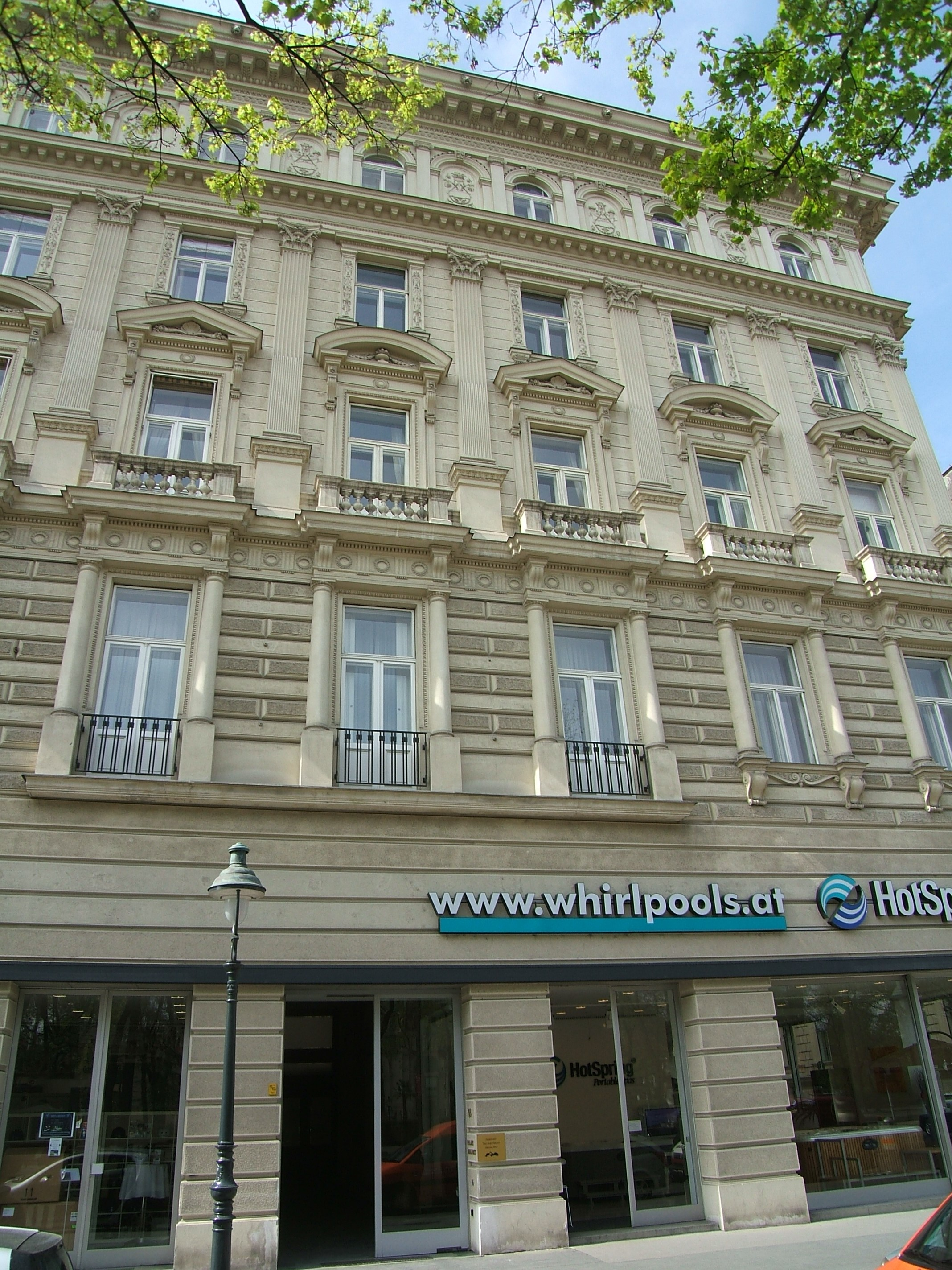 Palais Helfert in Vienna 1st district Parkring 18